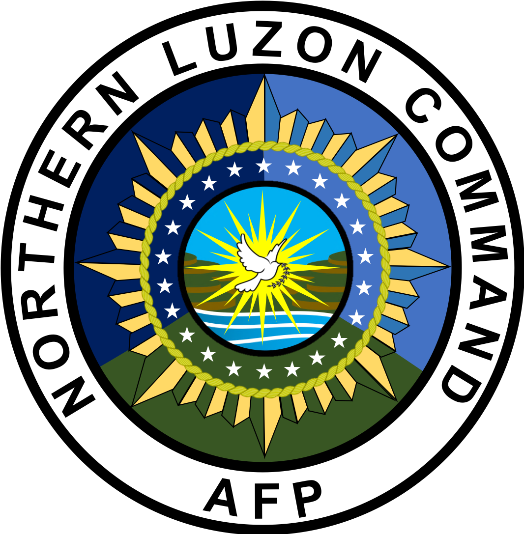 The new and official seal of the Northern Luzon Command, Armed Forces of the Philippines